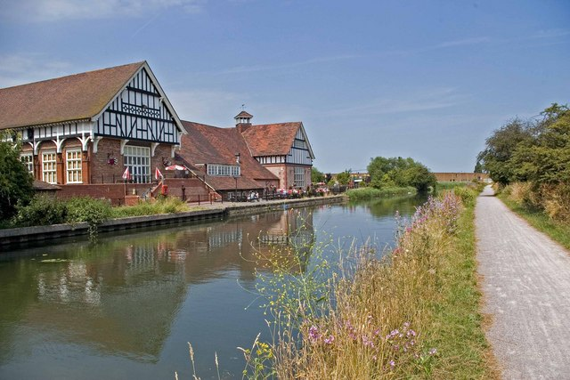 The Navigation Inn, near to Ponders End, Enfield, Great Britain. This watering hole on the Lea and Stort Navigation was converted from an old pumping station converted into a pub in 1995.